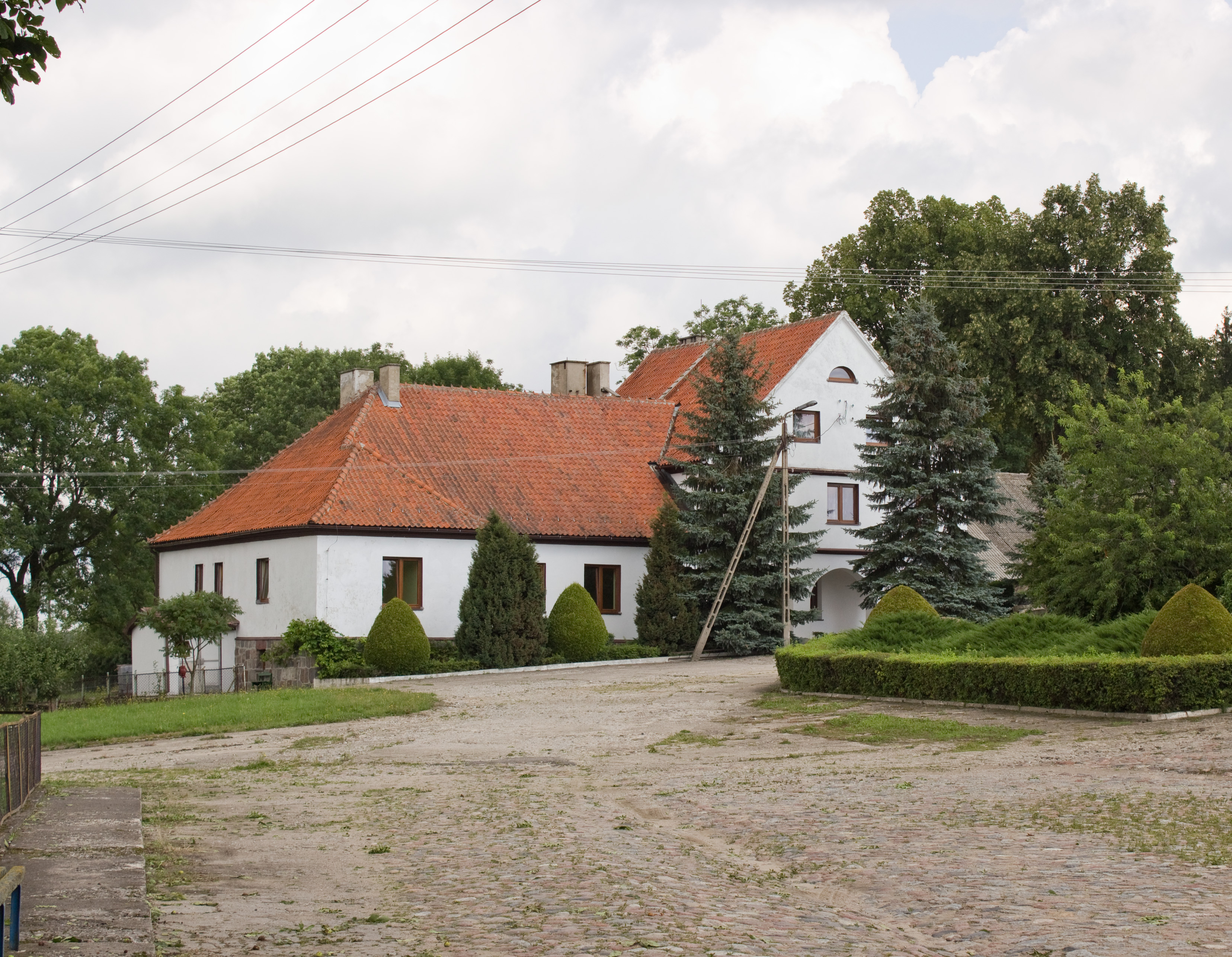 Manor house, Boże, gmina Mrągowo, powiat mrągowski, Warmian-Masurian Voivodeship